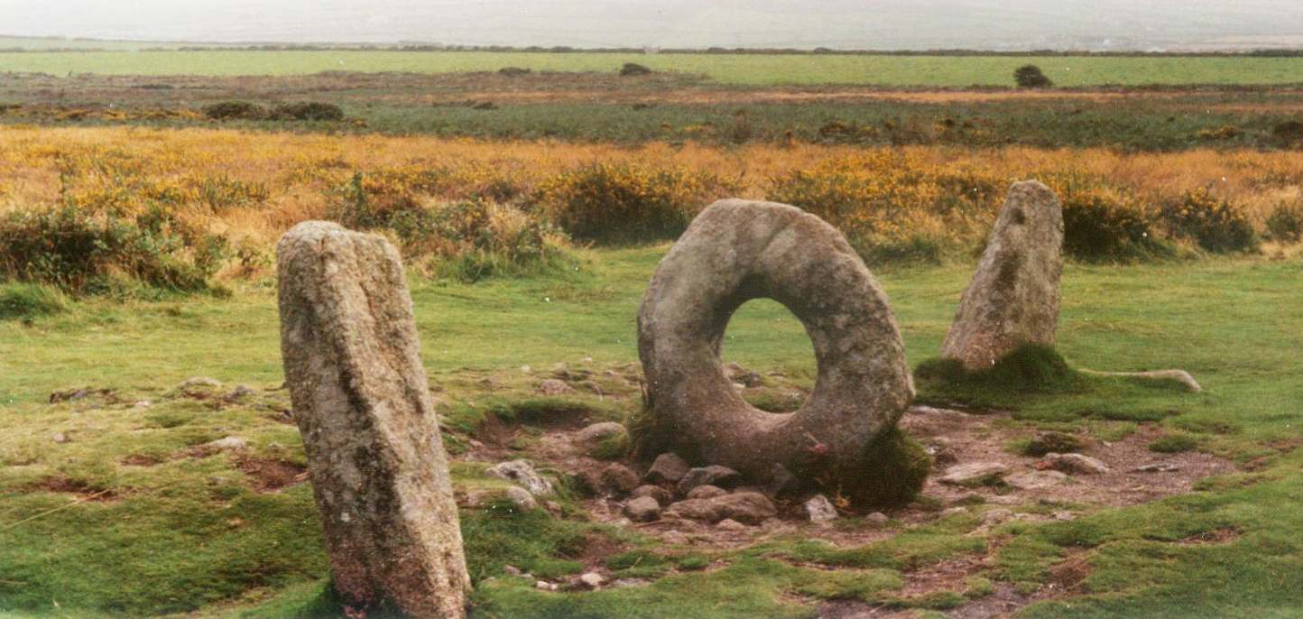 Mên-an-tol, megalithic formation in Cornwall